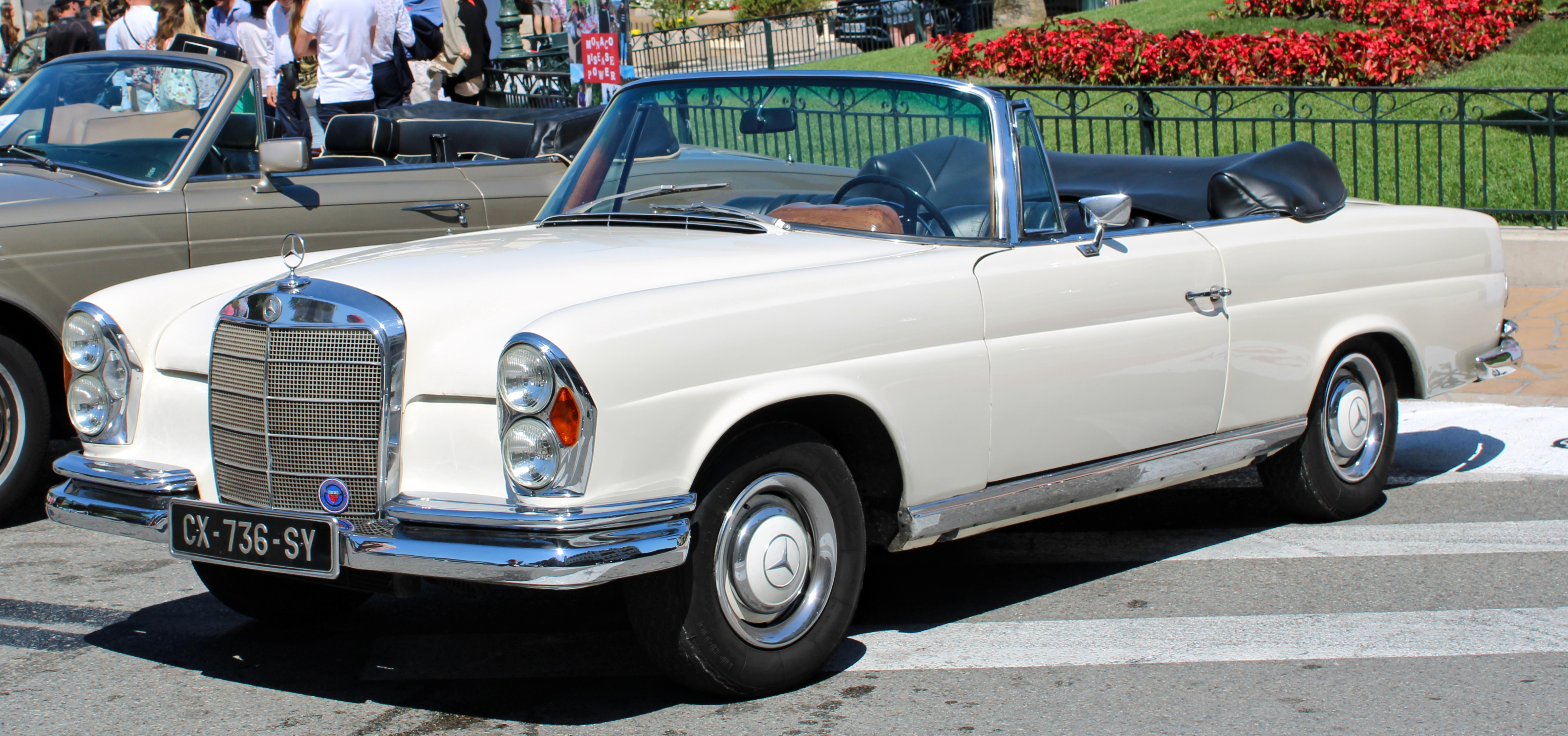 Mercedes-Benz W112C in Monaco